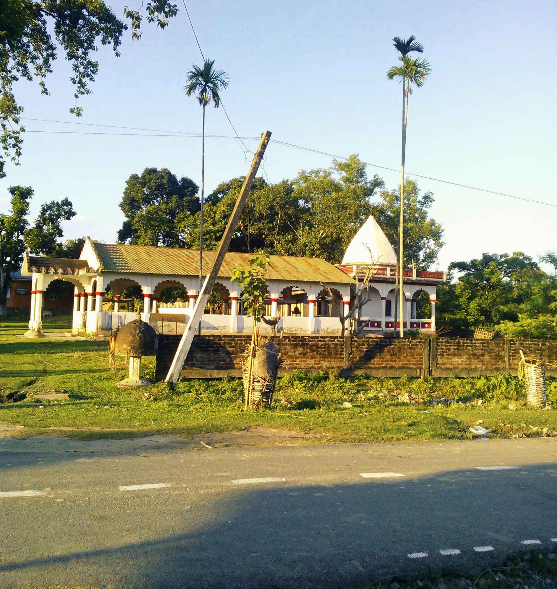 its a temple located in Namkhala